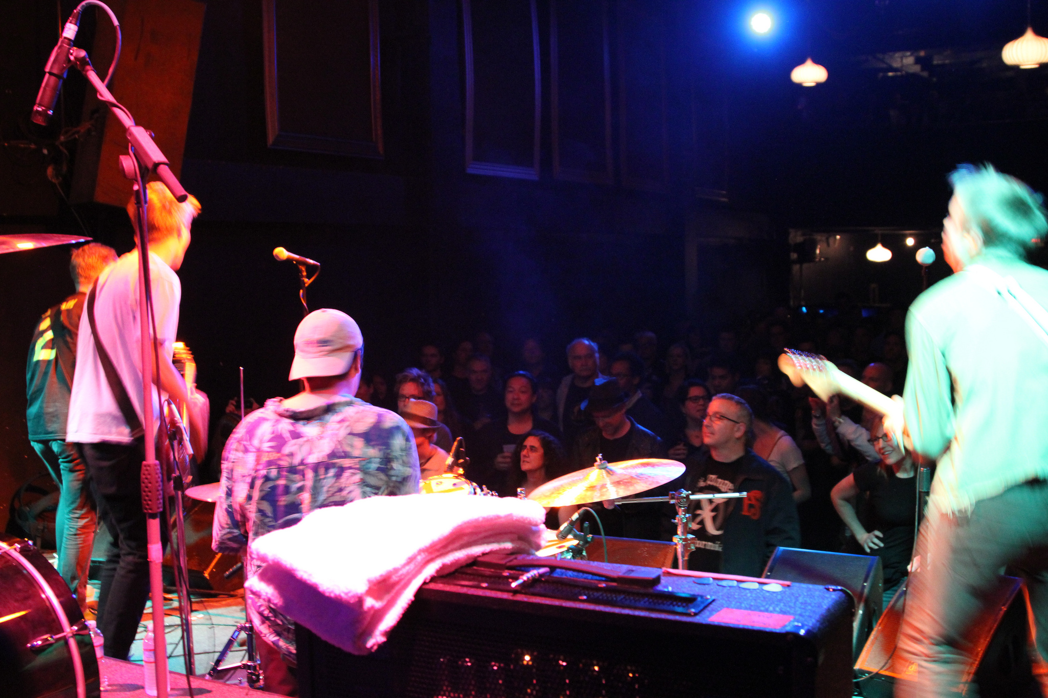 american band Emily's Army